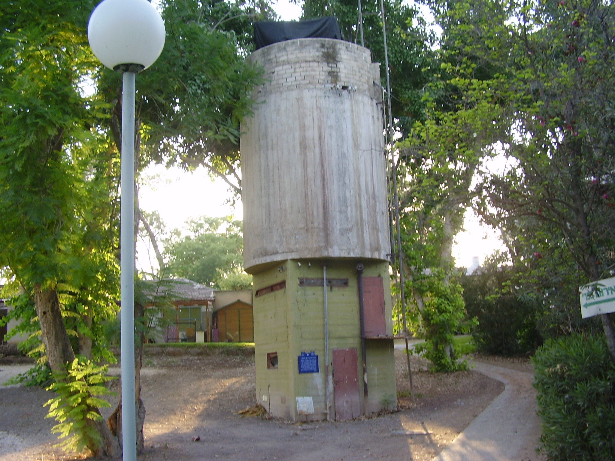 water tower in kibbutz tirat tzvi מגדל מים בקיבוץ טירת צבי